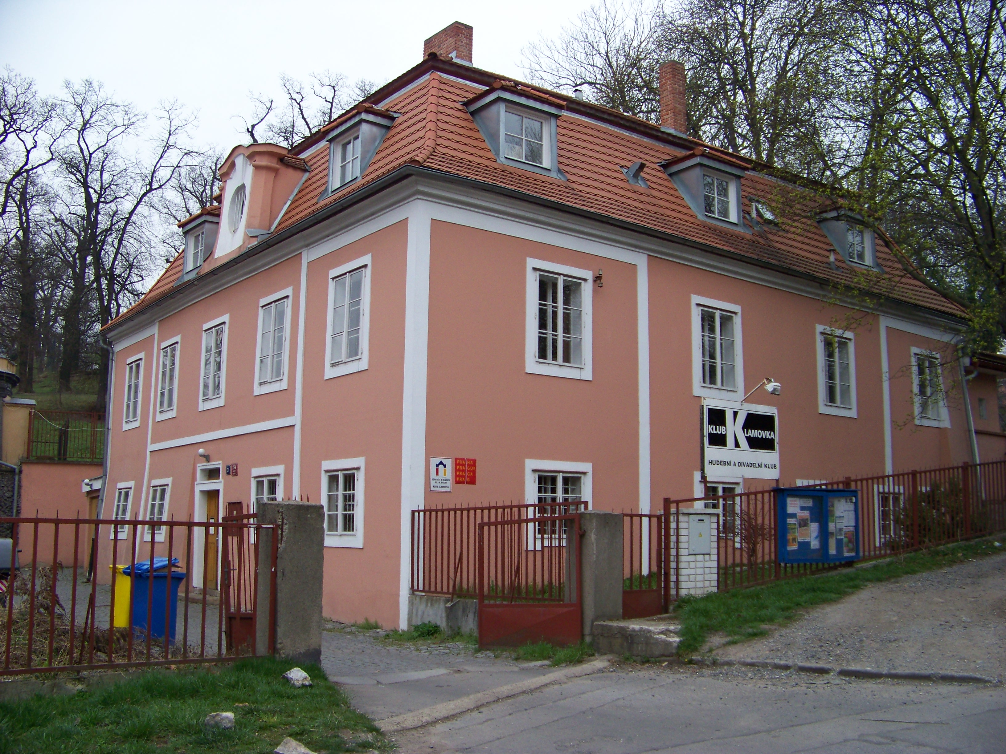 Prague-Smíchov, Czech Republic. Podbělohorská 154/3, Klamovka mansion.